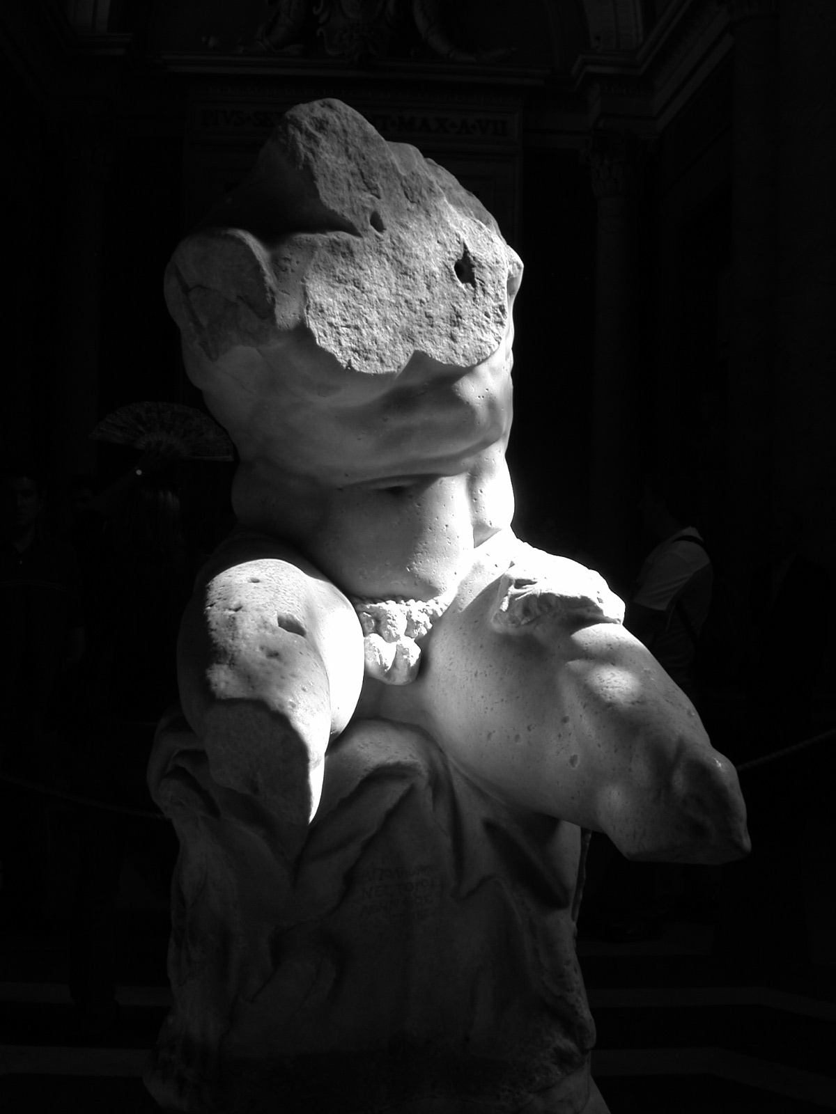 Torso of the Belvedere, neo-attic artwork, 1st century CE. The inscription on the pedestal reads "made by Apollonios, son of Nestor, Athenian". Museo Pio-Clementino (Inv. 1192), Vatican Museums, Rome. Photography: F. Bucher